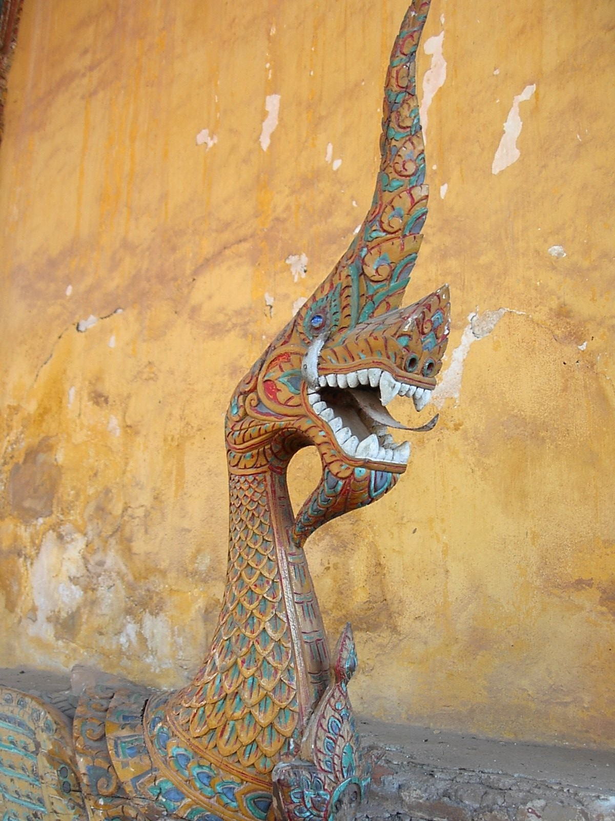 A Phaya Naga guarding the Temple of Wat Si Saket, Vientiane, Laos.